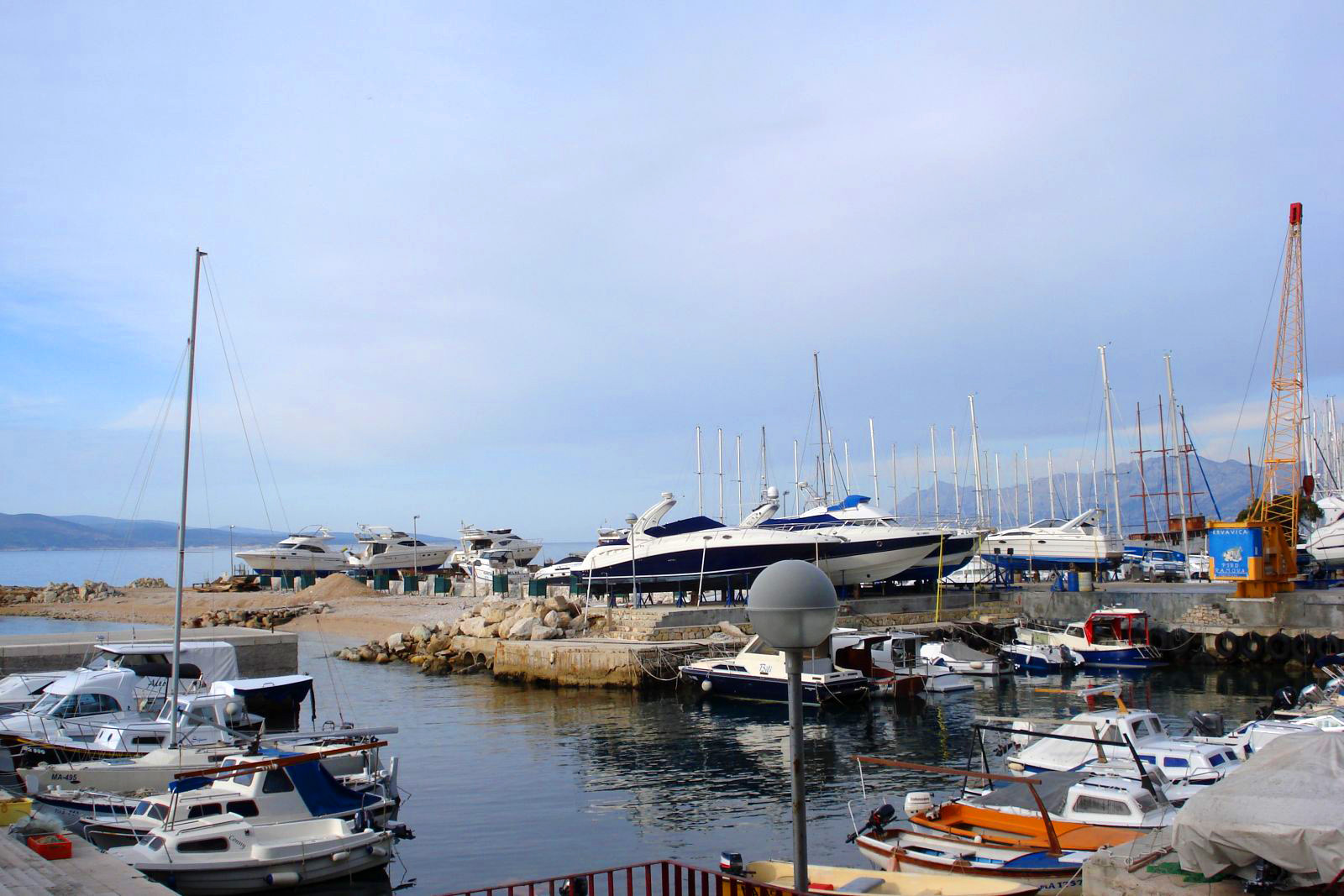 A marina in Krvavica, near Makarska.